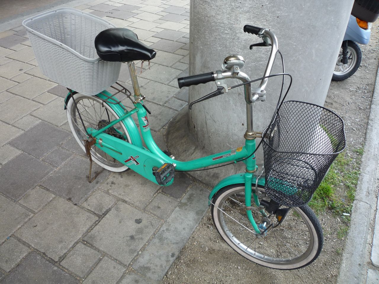 Japanese Mini-Cycle For-Ladies 1980's